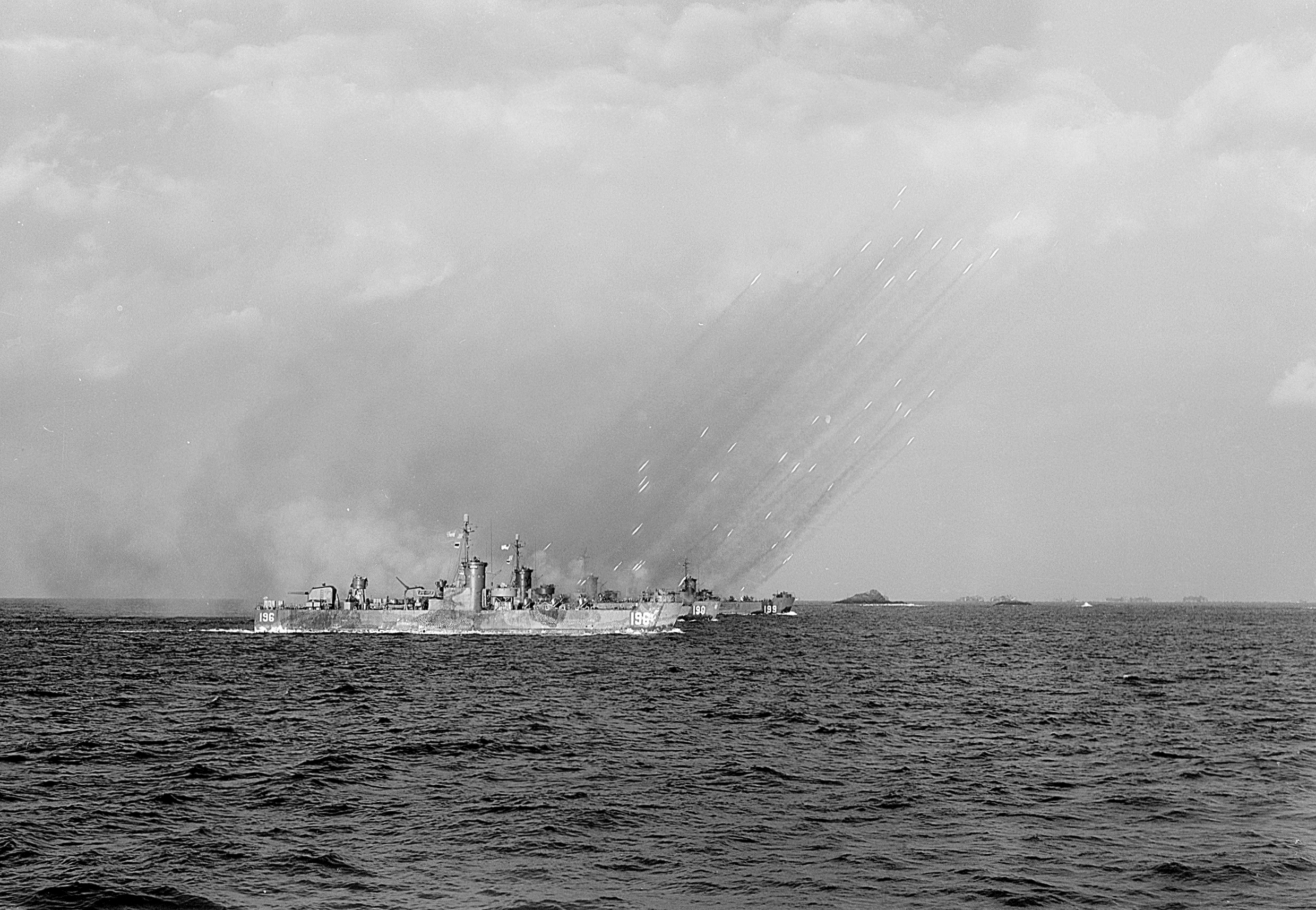 U.S. Navy LSM(R) firing rockets in the Kreama Islands in March 1945. The island is described as "Pokishi Shima", which may be Tokashiki island, which was invaded on 27 March by the 306th Regimental Combat Team, U.S. Army. The ships are LSM(R)-196, unknown, LSM(R)-190 and LSM(R)-199.Original description: "LSM's (R) sending rockets at the shores of Pokishi Shima, near Okinawa, 5 days before invasion."